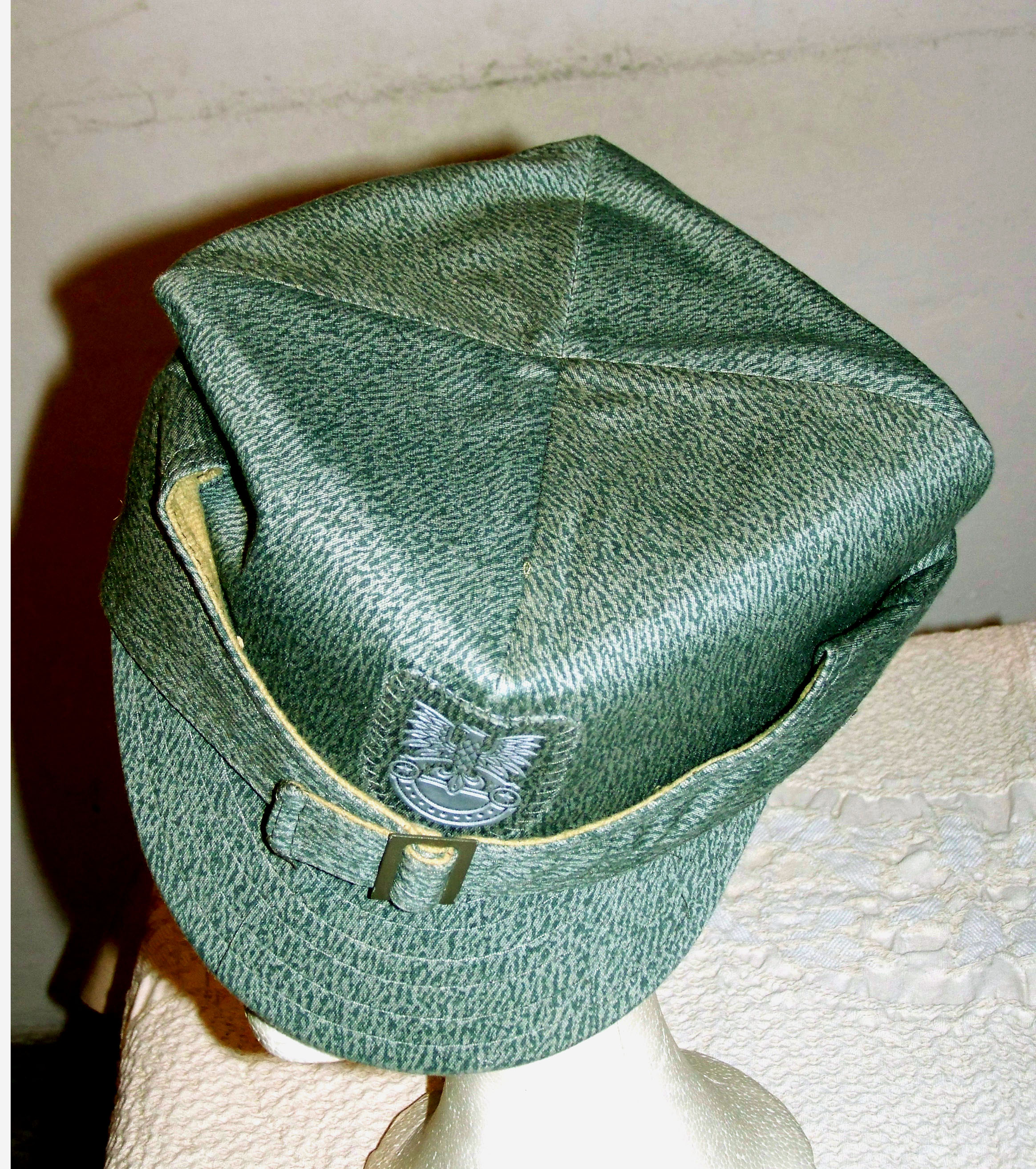 Polish field czapka (rogatywka polowa) model 1960, based upon the shape of model 1937.